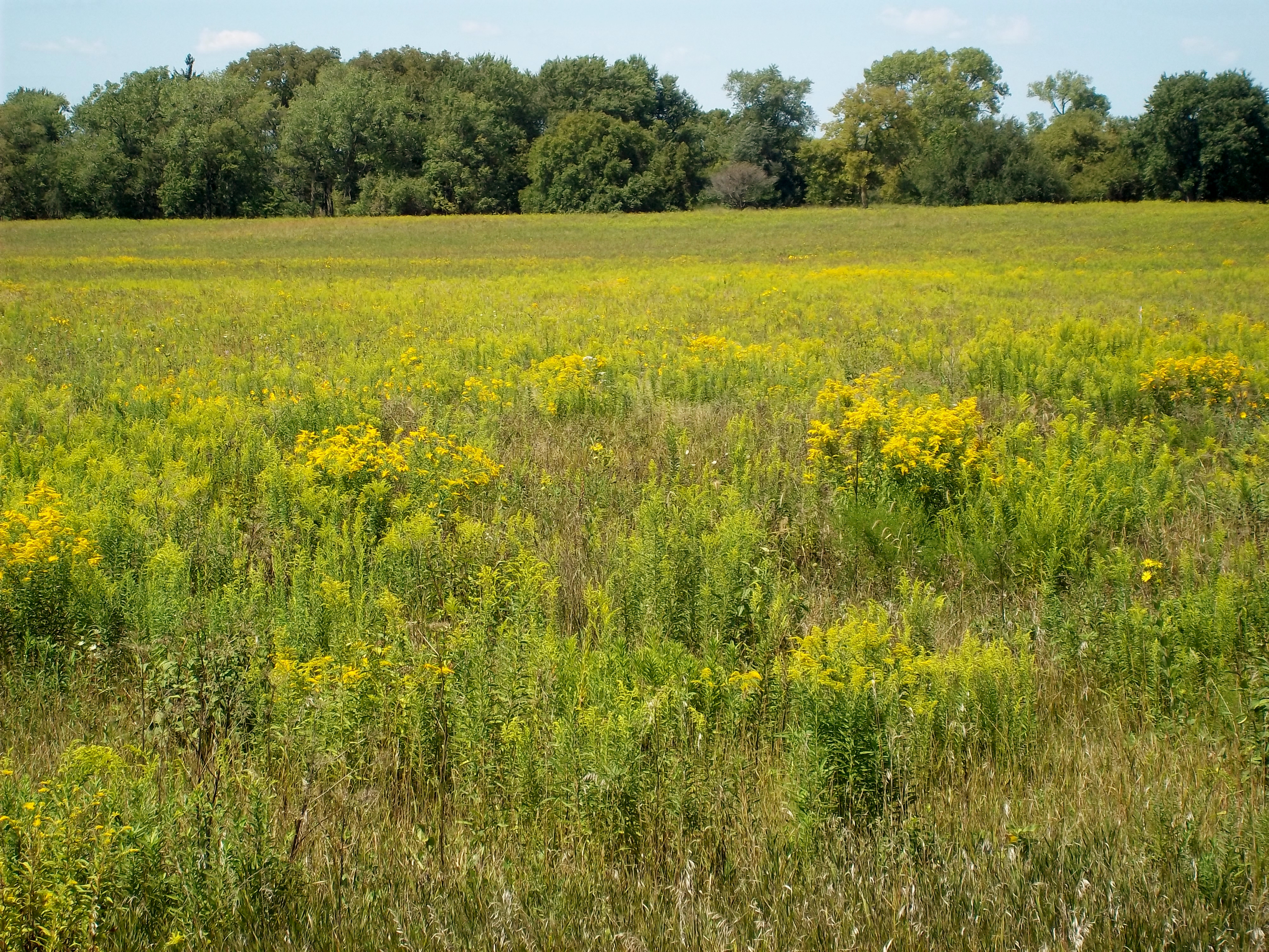 The Midewin National Tallgrass Prairie. A tallgrass prairie in Will County, northeastern Illinois.